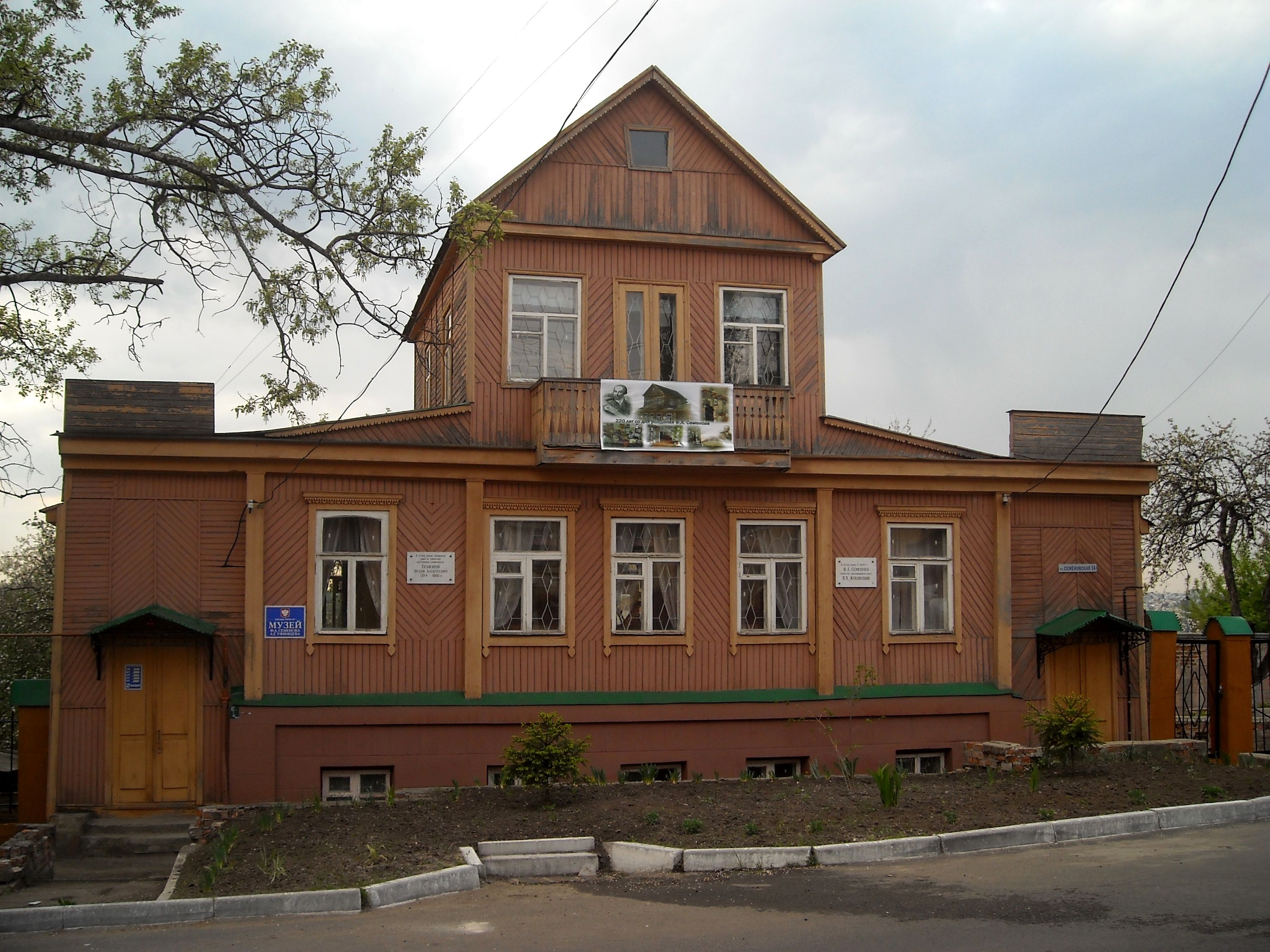 Museum of F. A. Semenov and A.G. Ufimtsev, Kursk, Semenovskaya street, 14